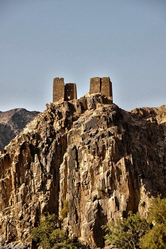 وادي عياء بللحمر